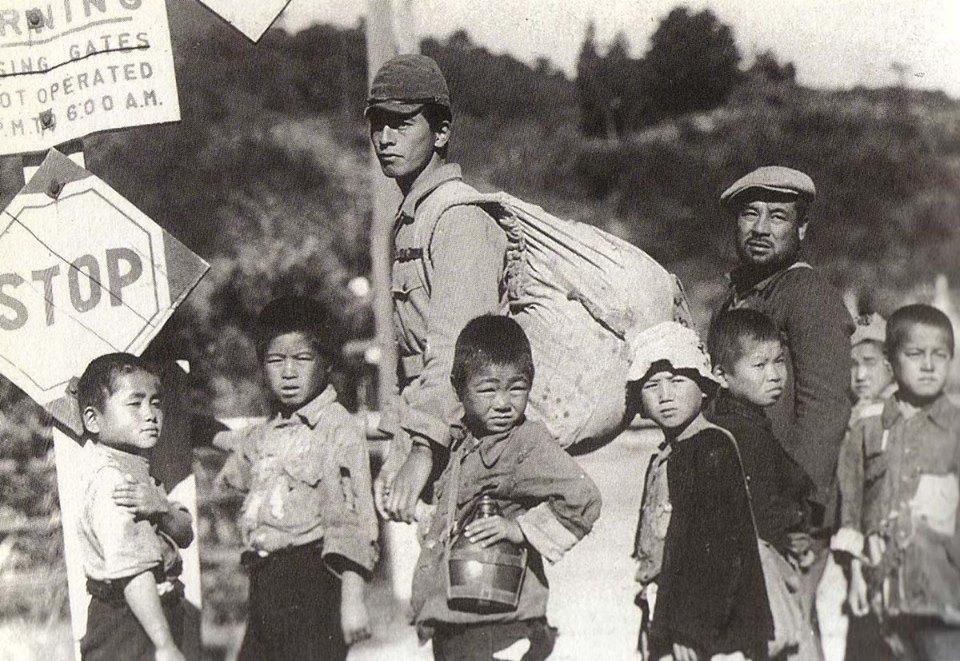 A scene from Hachi no su no kodomotachi (蜂の巣の子供たち) directed by Hiroshi Shimizu with non-professional actors - 1948